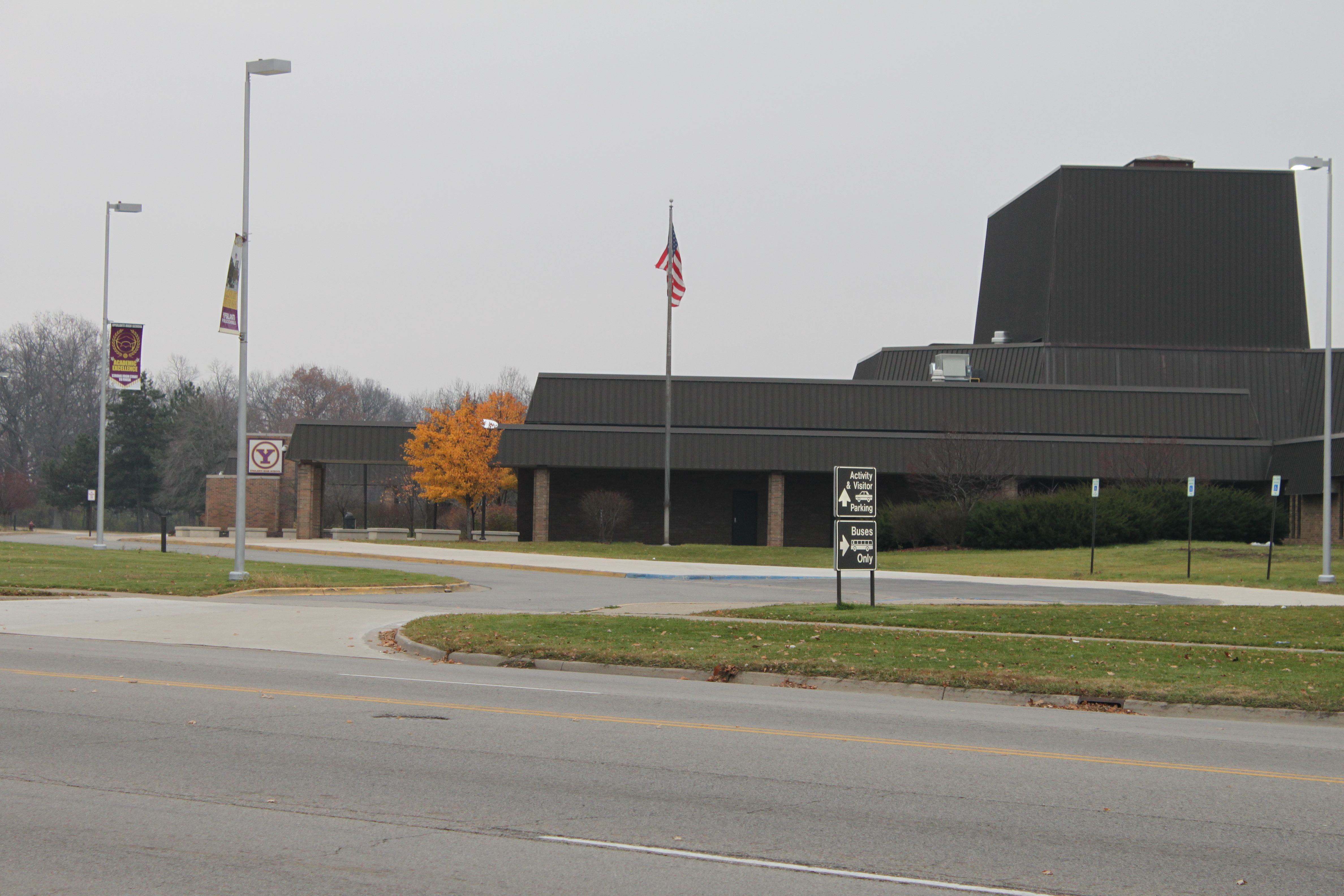 Ypsilanti High School-Packard Ave. Entrance